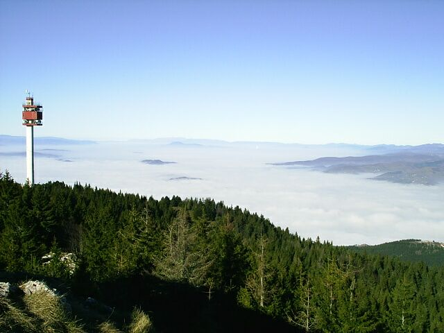 View from Trebević in winter, Bosnia and Herzegovina